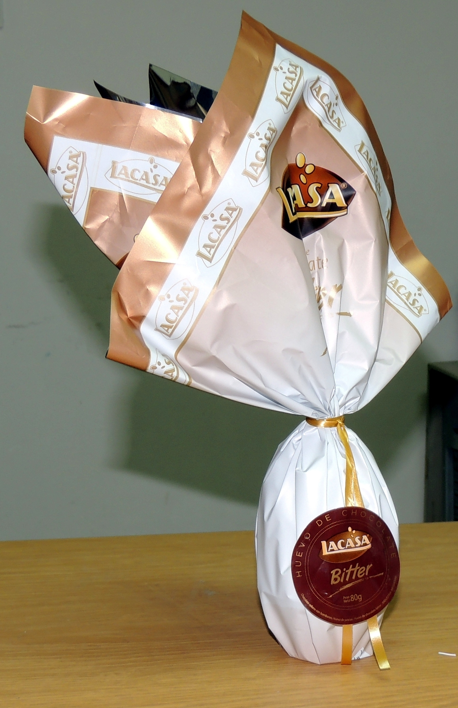 Easter egg with bundle